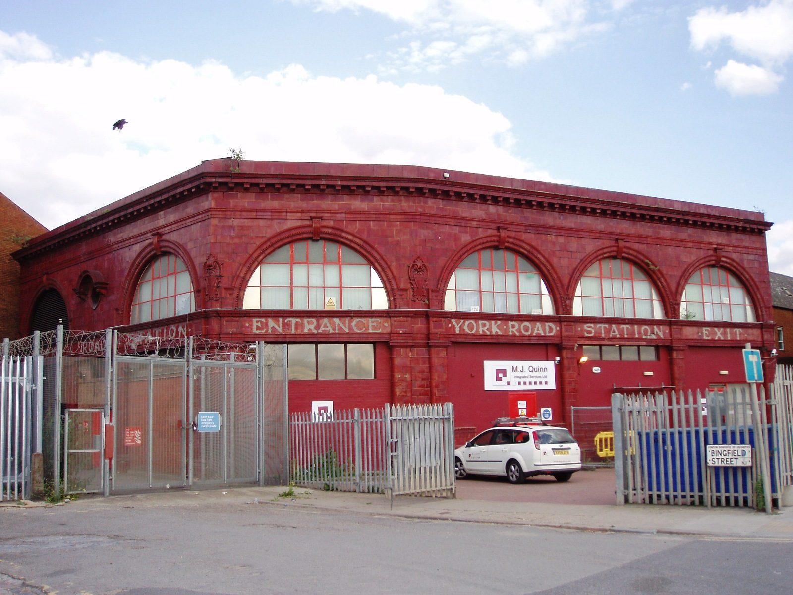 The frontage of York Road, a disused tube station on the Piccadilly Line between King's Cross and Caledonian Road.